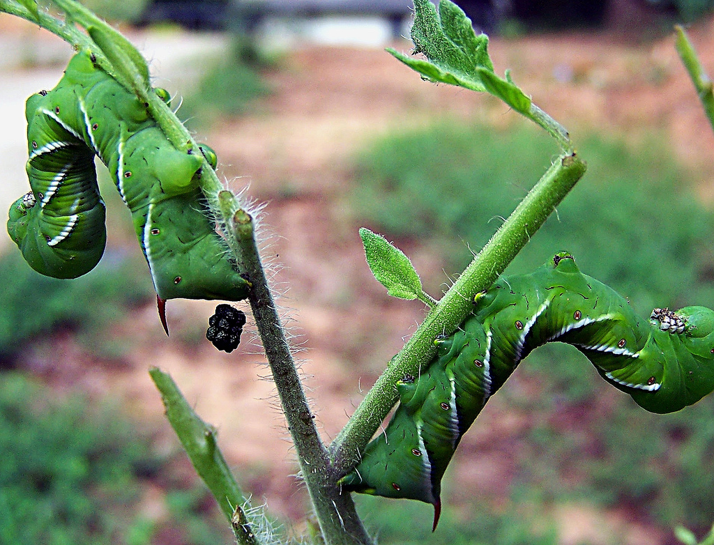 Tobacco hornworm (Manduca sexta). The one on the left has a packet of feces still nearby.